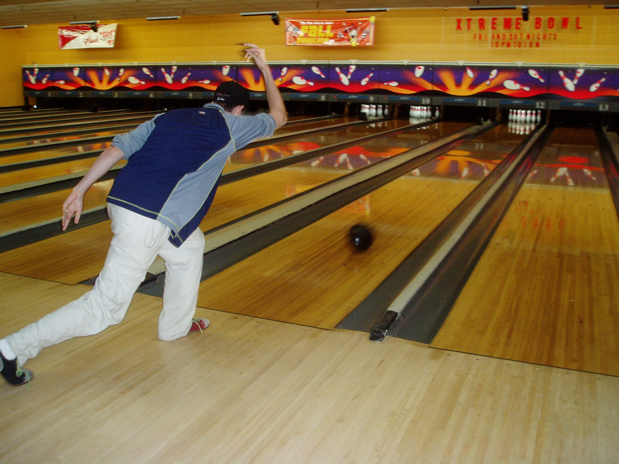 Bowling is a popular pastime for Americans of all ages. A ten-pin bowler releases the ball.